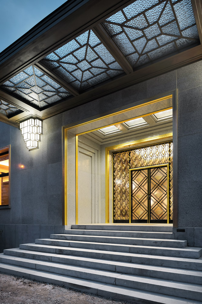 Photograph of the entrance of the Villa Empain after restoration by MA ² - Metzger & Associates Architecture in 2012. Rewarded project with the Prize for Cultural Heritage Project of the European Union - Europa Nostra en the European Prize for Architecture Philippe-Rotthier. Photography by Georges de Kinder